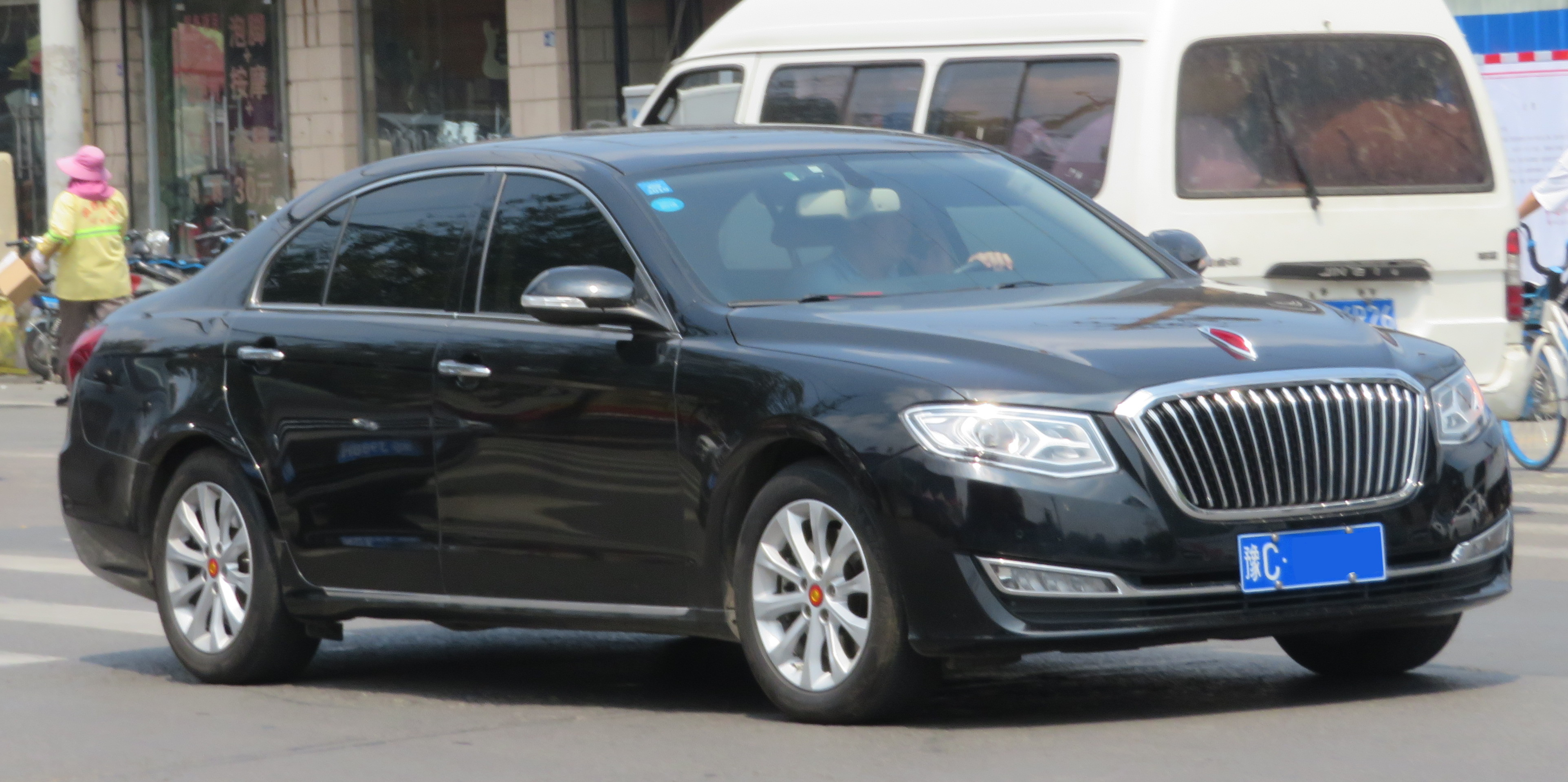 Photographed in Luoyang, Henan province, China